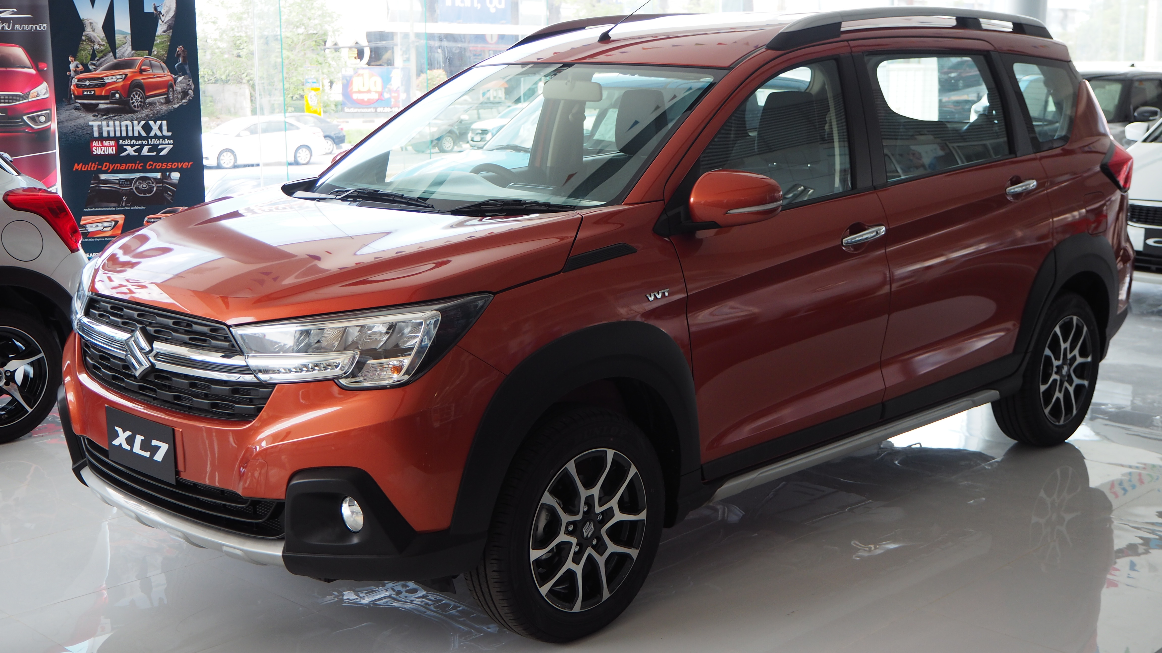 2020 Suzuki XL7 GLX in Suzuki R-Heng Wattana, Khon Kaen, Thailand.